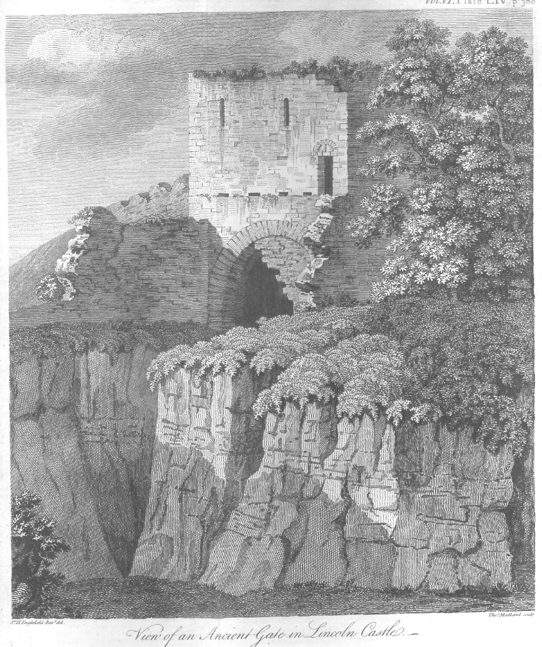 The supposed Roman West Gate of the Upper Colonia of Lincoln, which has been restored as the West Gate of Lincoln Castle. An outer view of the gateway showing the gateway and the ditch of the Castle defences